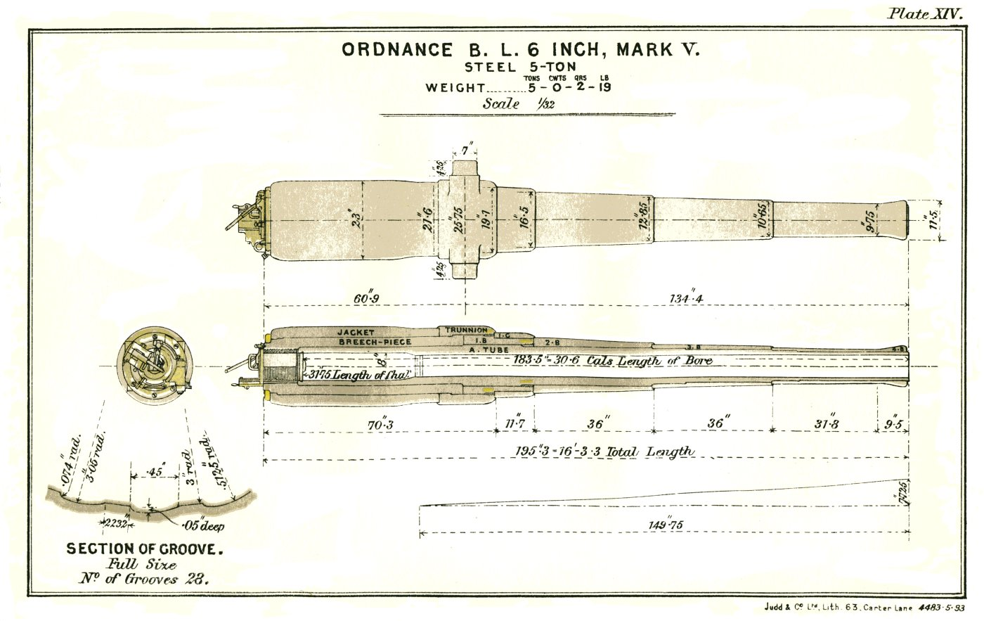 Diagram showing barrel construction and dimensions of British BL 6 inch gun Mk V.